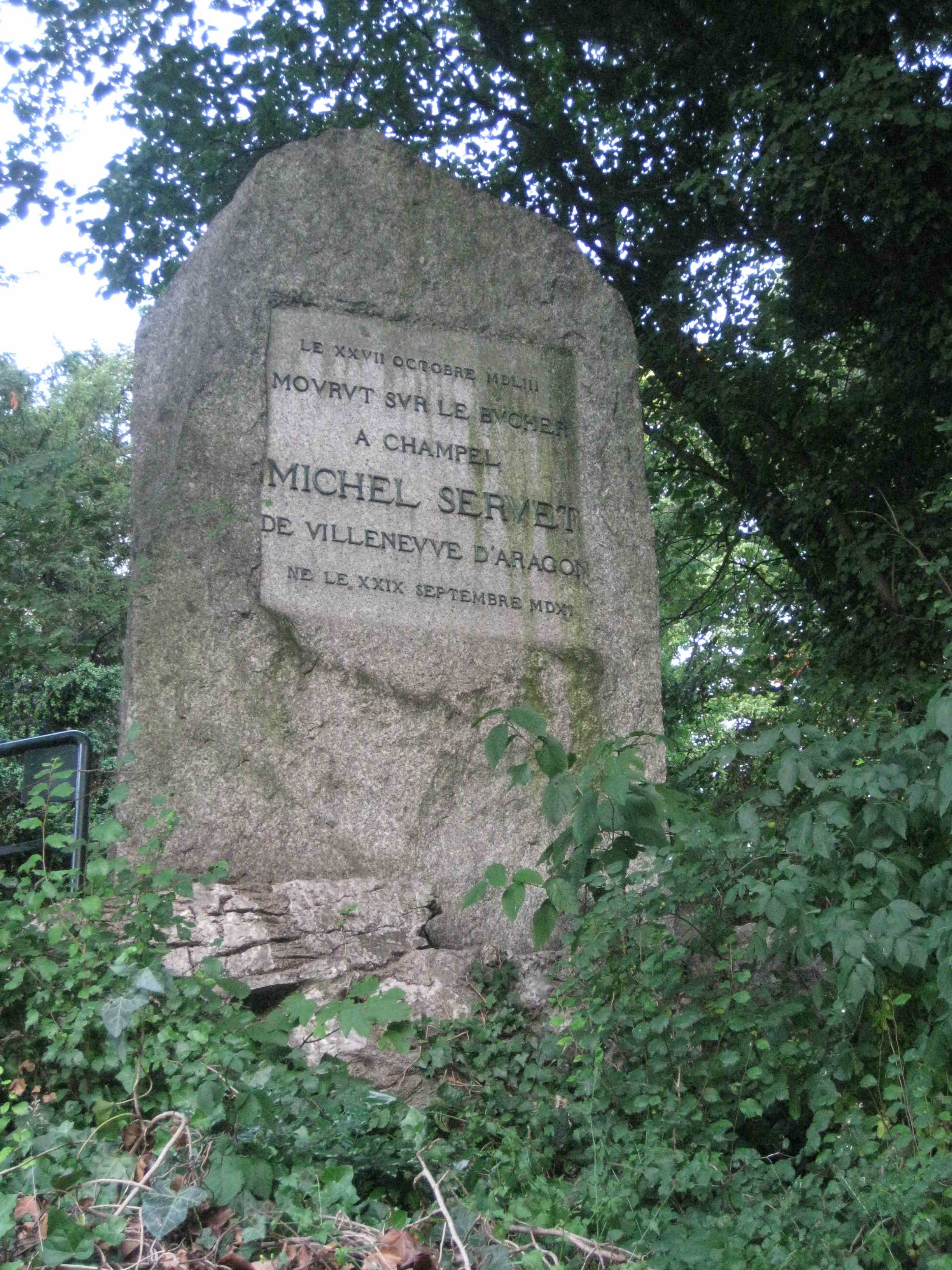 Rear side of Monument to Miguel Servet in Geneva